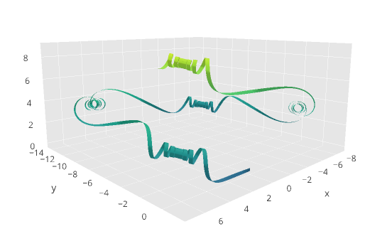 A ribbon defined by a curve of constant torsion and a highly oscillating curvature. The arc length parameterization of the curve was defined via integration of the Frenet-Serre equations.